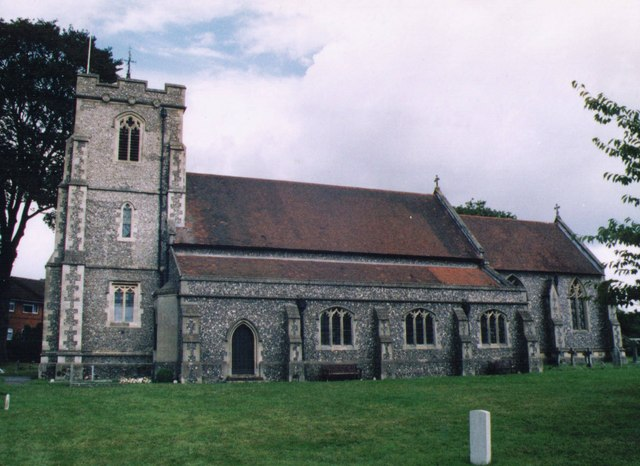 St Mary, Bishopstoke Grade 2 listed building erected in 1889.